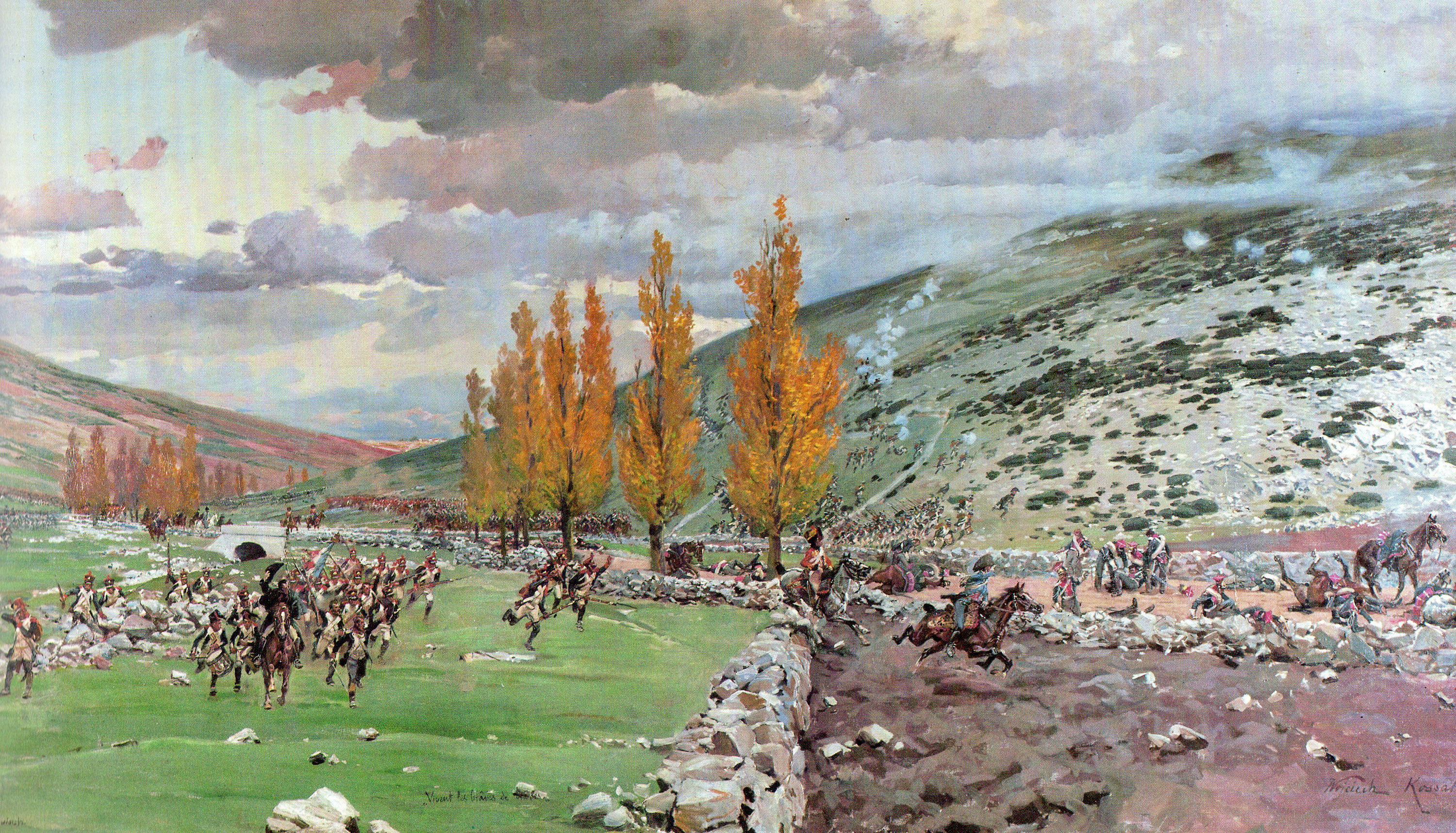 Battle of Somosierra Panorama - the route from Burgos